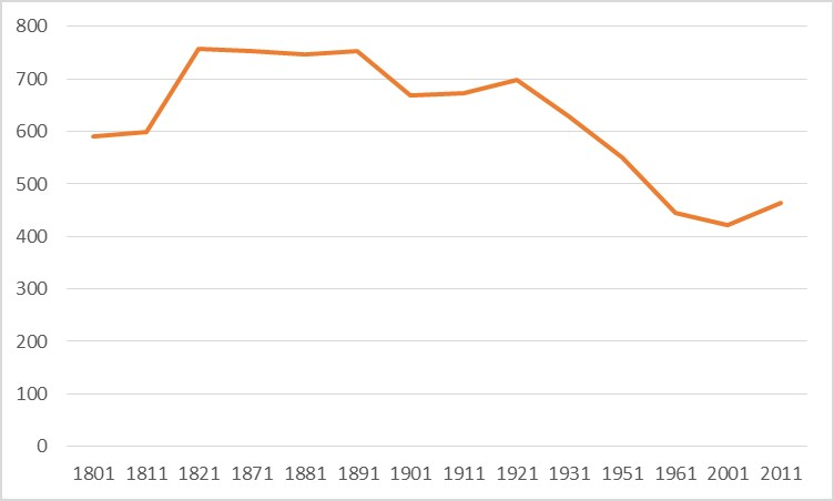 The population of the civil parish of Holme St. Cuthbert between 1801 and 2011. Unfortunately, data from some years are missing.